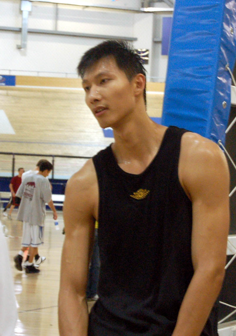 Yi Jianlian working out